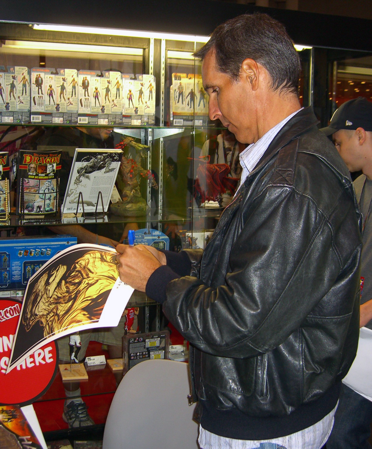 Comics creator Todd McFarlane signing a Haunt poster at the Image Comics booth at the New York Comic Con, October 15, 2011. This photo was created by Luigi Novi. It is not in the public domain, and use of this file outside of the licensing terms is a copyright violation.